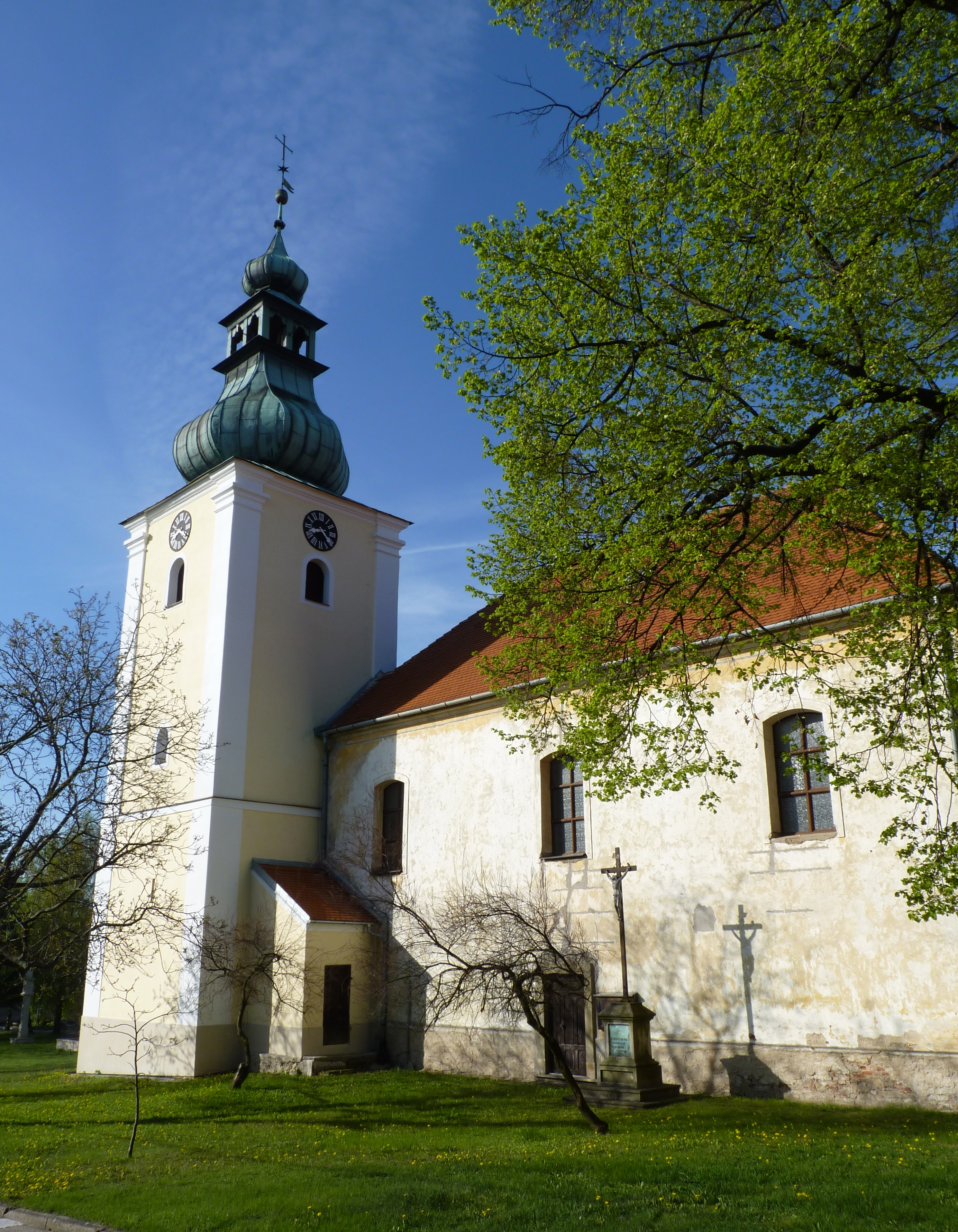 Church of Saint Linhart in Havraníky, Znojmo District, South Moravian Region, Czech Republic